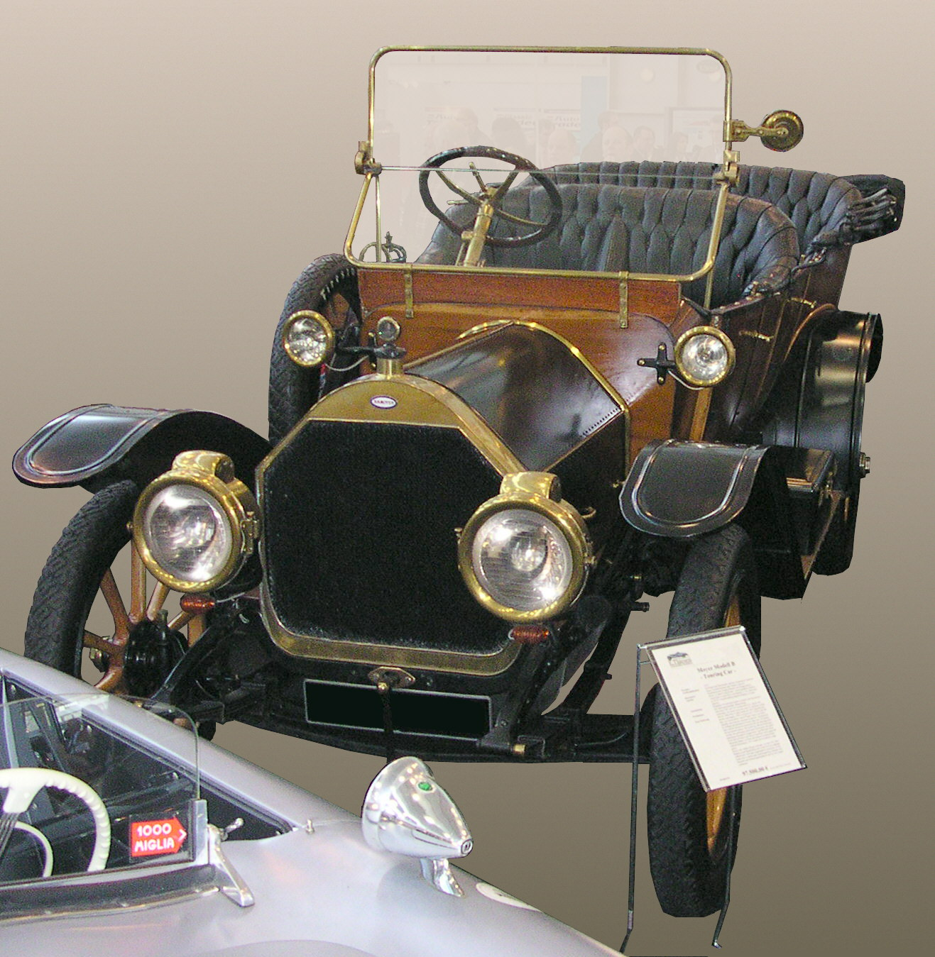 Techno-Classica 2007, Moyer Model B Touring car (1913), „T-Head Long Stroke“ motor